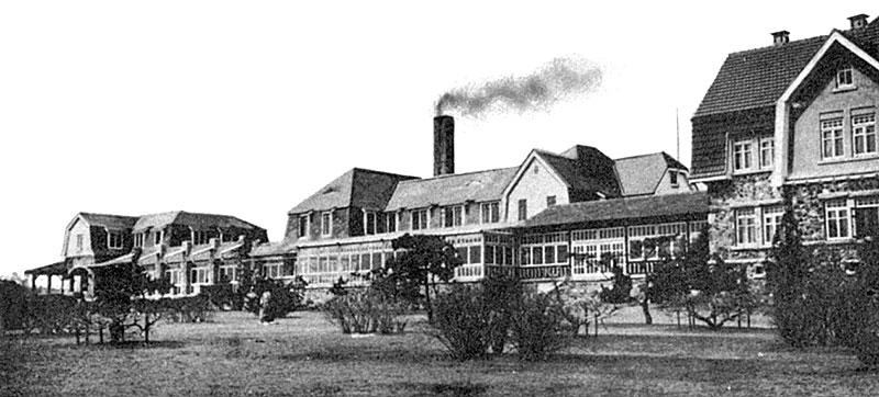 Yamato Hotel Hoshigaura, Dairen (Dalian)